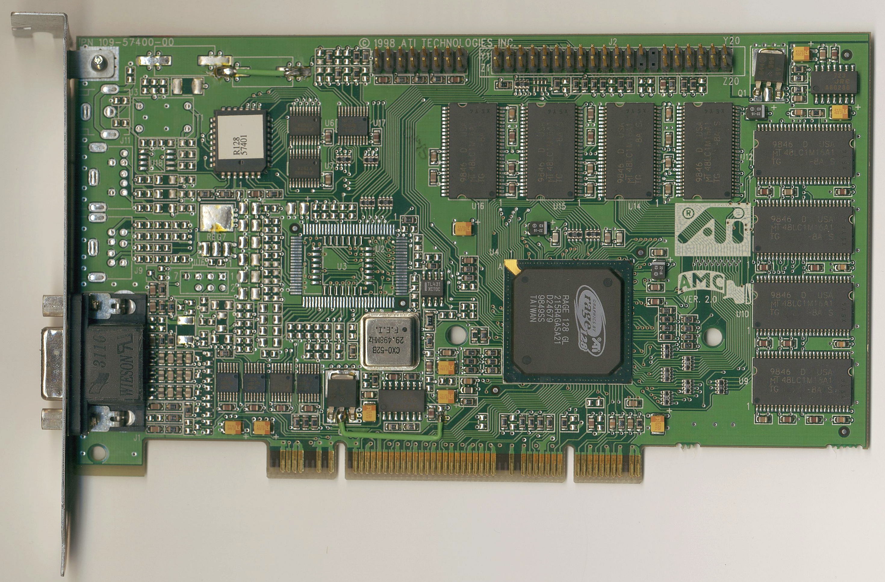 Description : ATi Rage128 GL PCI 16MB Photographer/Painter : mac3216